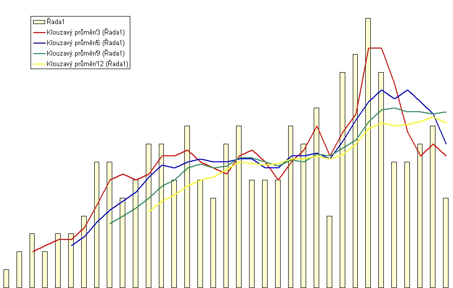 Running average